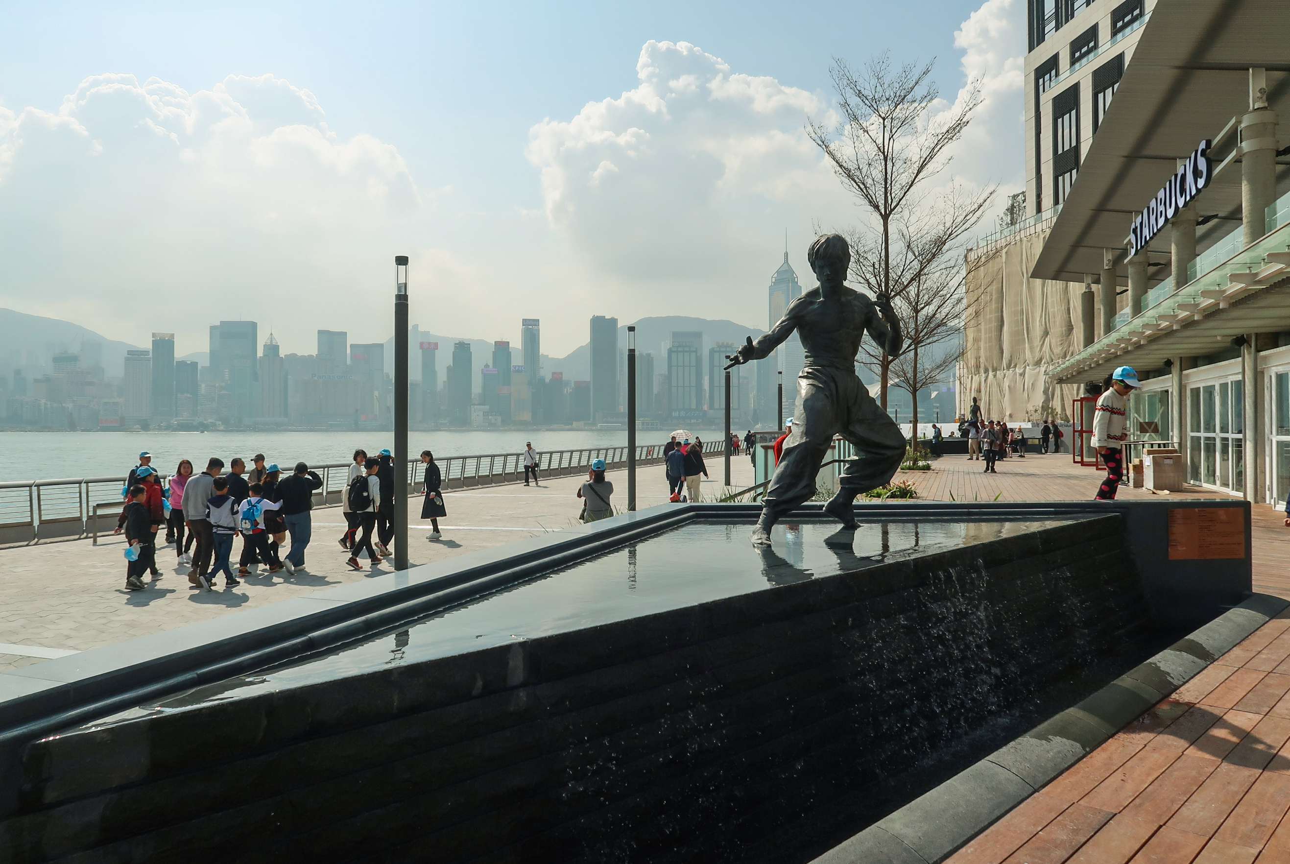 Avenue of Stars Bruce Lee sculpture